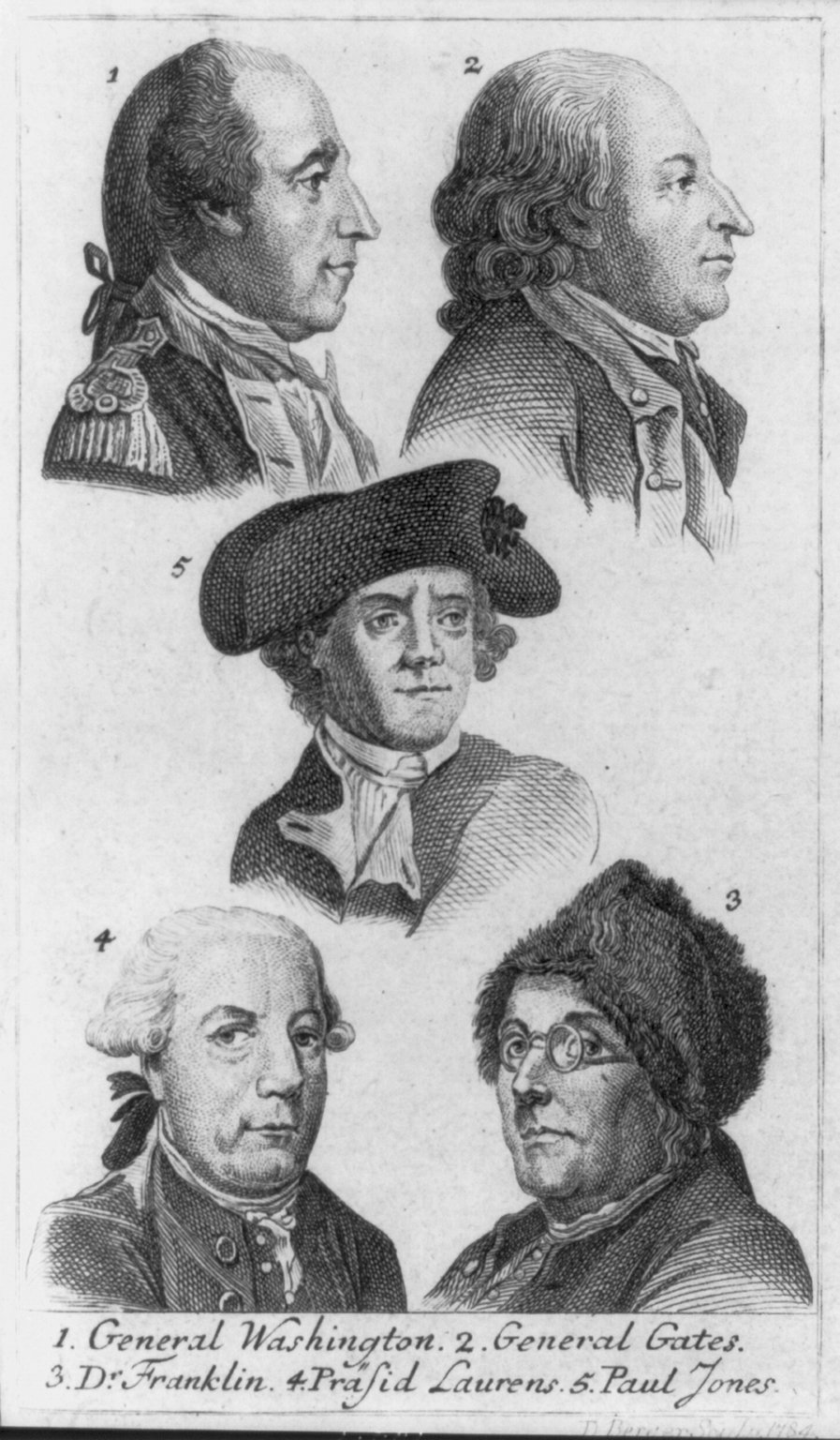 1. General Washington 2. General Gates 3. Dr. Franklin 4. Präsid Laurens 5. Paul Jones / D. Berger sculp. 1784. Etching shows head-and-shoulders portraits, of George Washington and Horatio Gates, right profile, Benjamin Franklin, facing left, and Henry Laurens and John Paul Jones, facing right. Illus. in: Allgemeines historisches taschenbuch ... / Matthias Christian Sprengel. Berlin : Haude und Spener 1784 p. 182 ff.